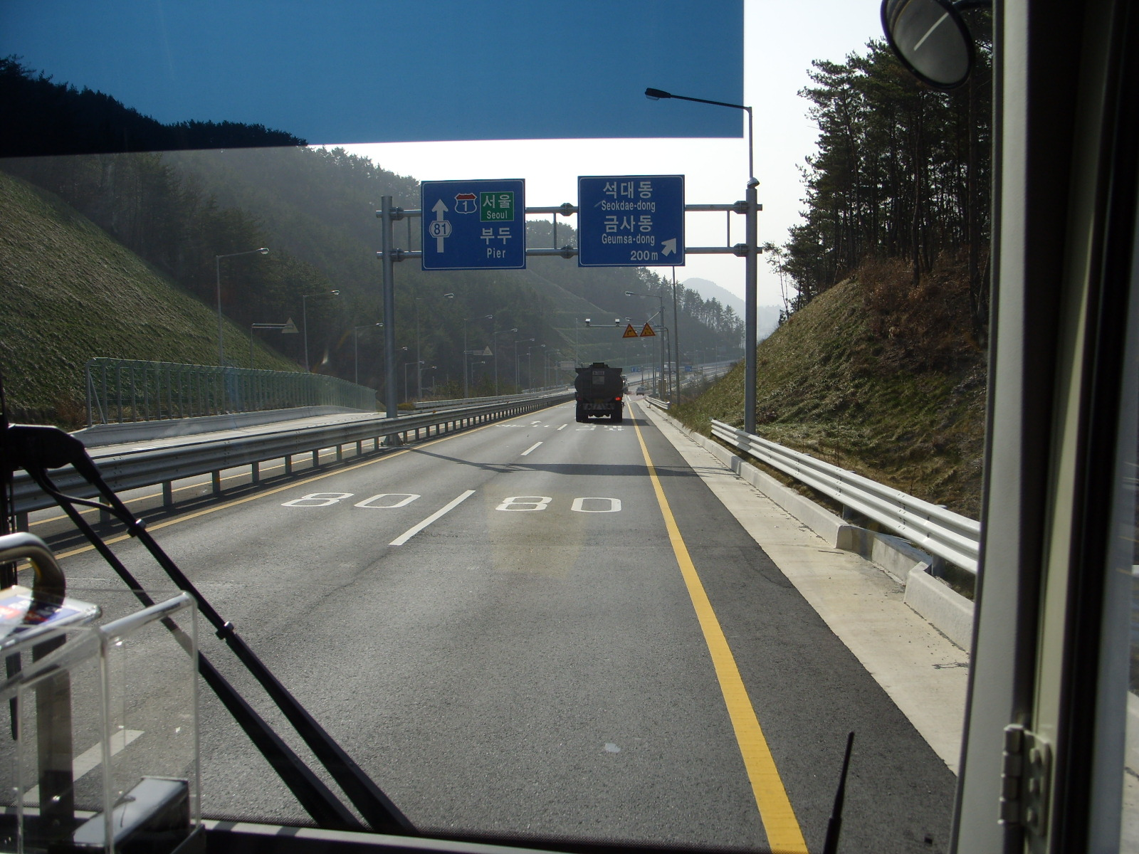 Seokdae IC in Access Road of Jeonggwan Indus Zn, Busan, Korea.